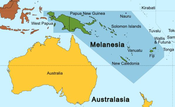 Map of Melanesia